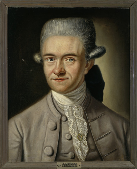 Christoph Meiners portrait by Johann Heinrich Tischbein the Younger (c.1772)